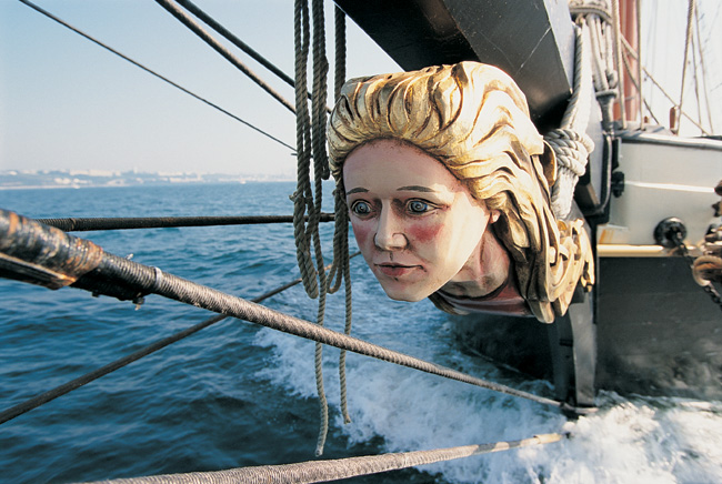 The bow and the figure of schooner Recouvrance in Brest.